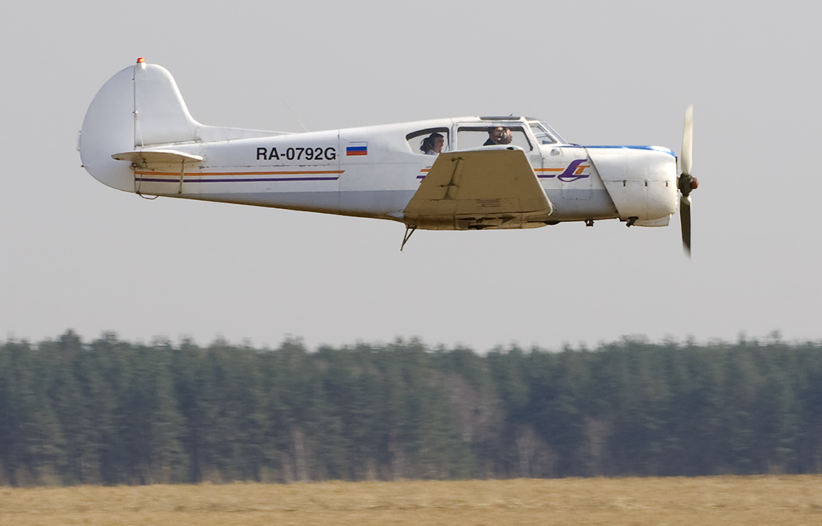 Yak-18t in flight